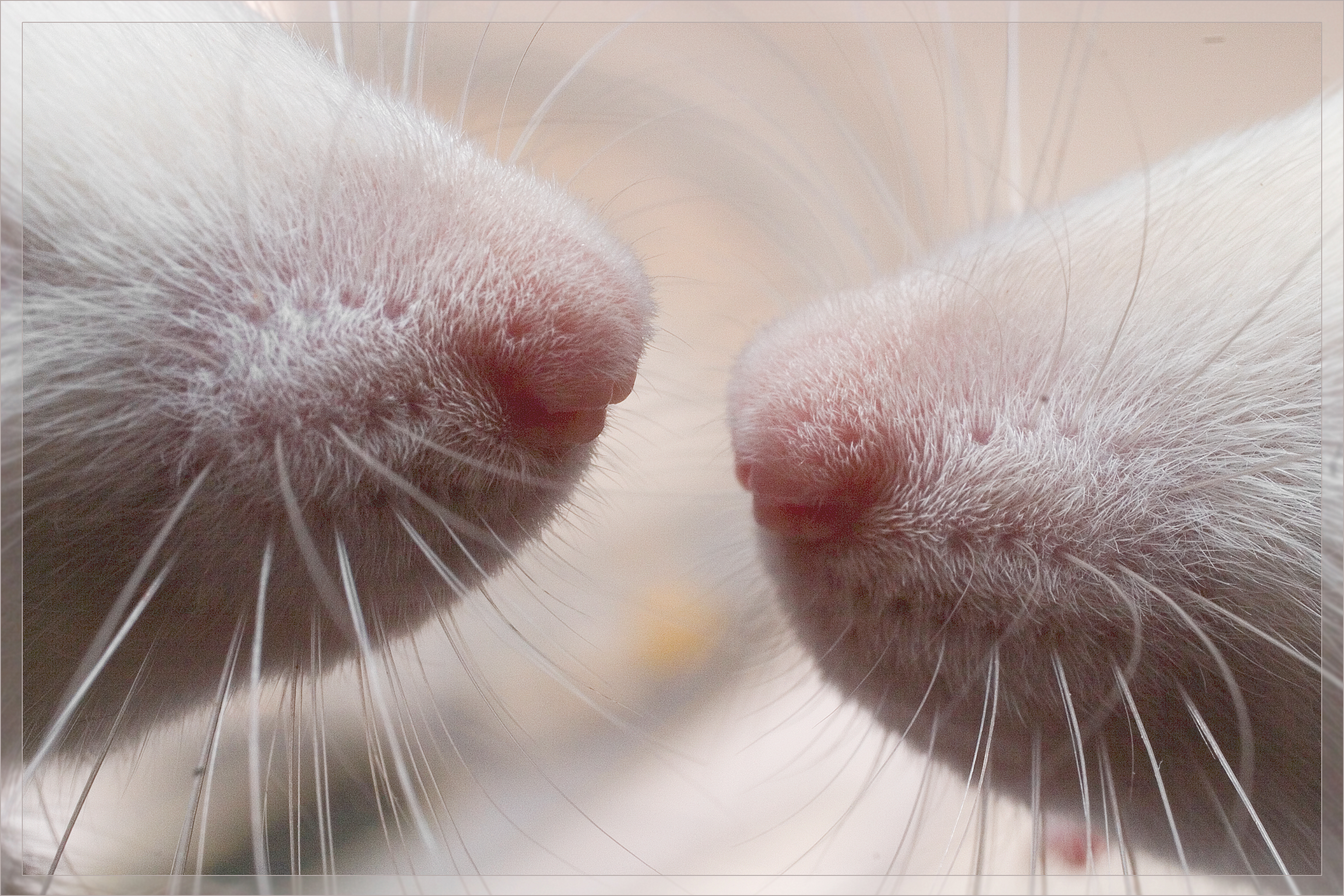 A close up of the noses and whiskers of two white rats.